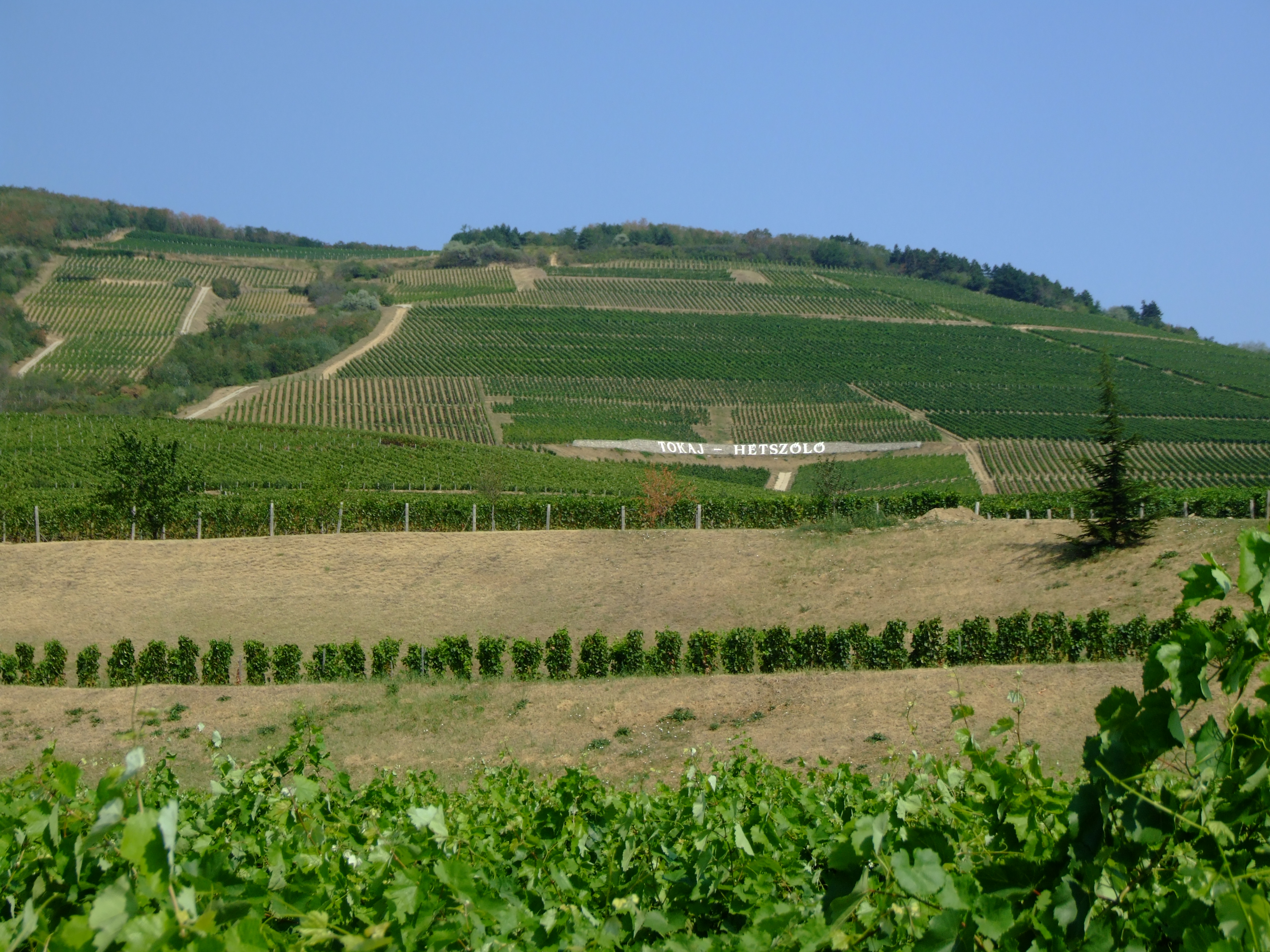 Hétszőlő vineyards, some of the best in Tokaj